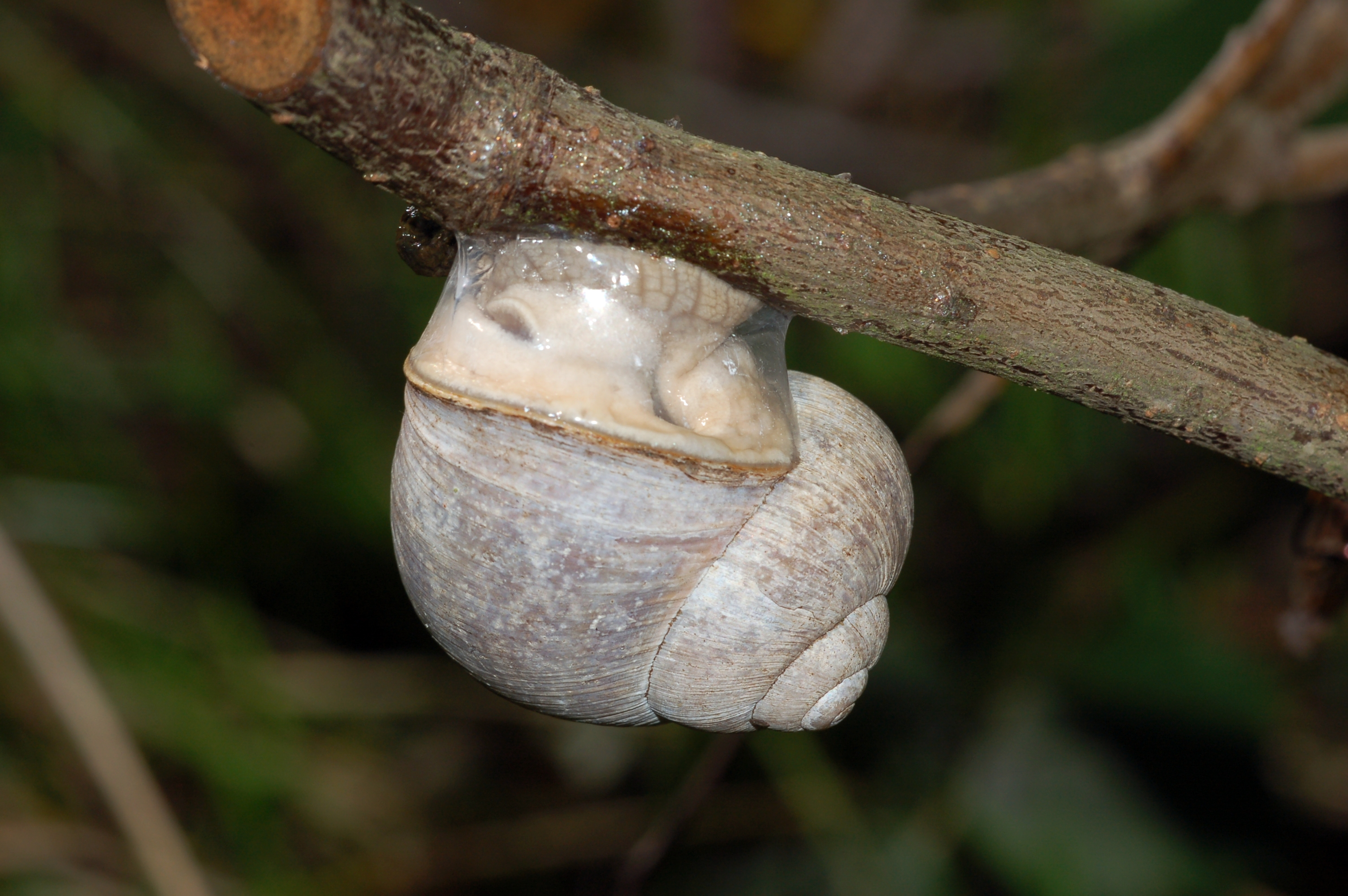 Burgundy Snail (Helix pomatia), Schwanheim Dune, Frankfurt/Main, Germany